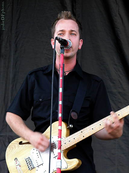 Steve Soboslai of the band Punchline playing at an outdoor concert, the Starland Summer Campout at Starland Ballroom 7/16/06.